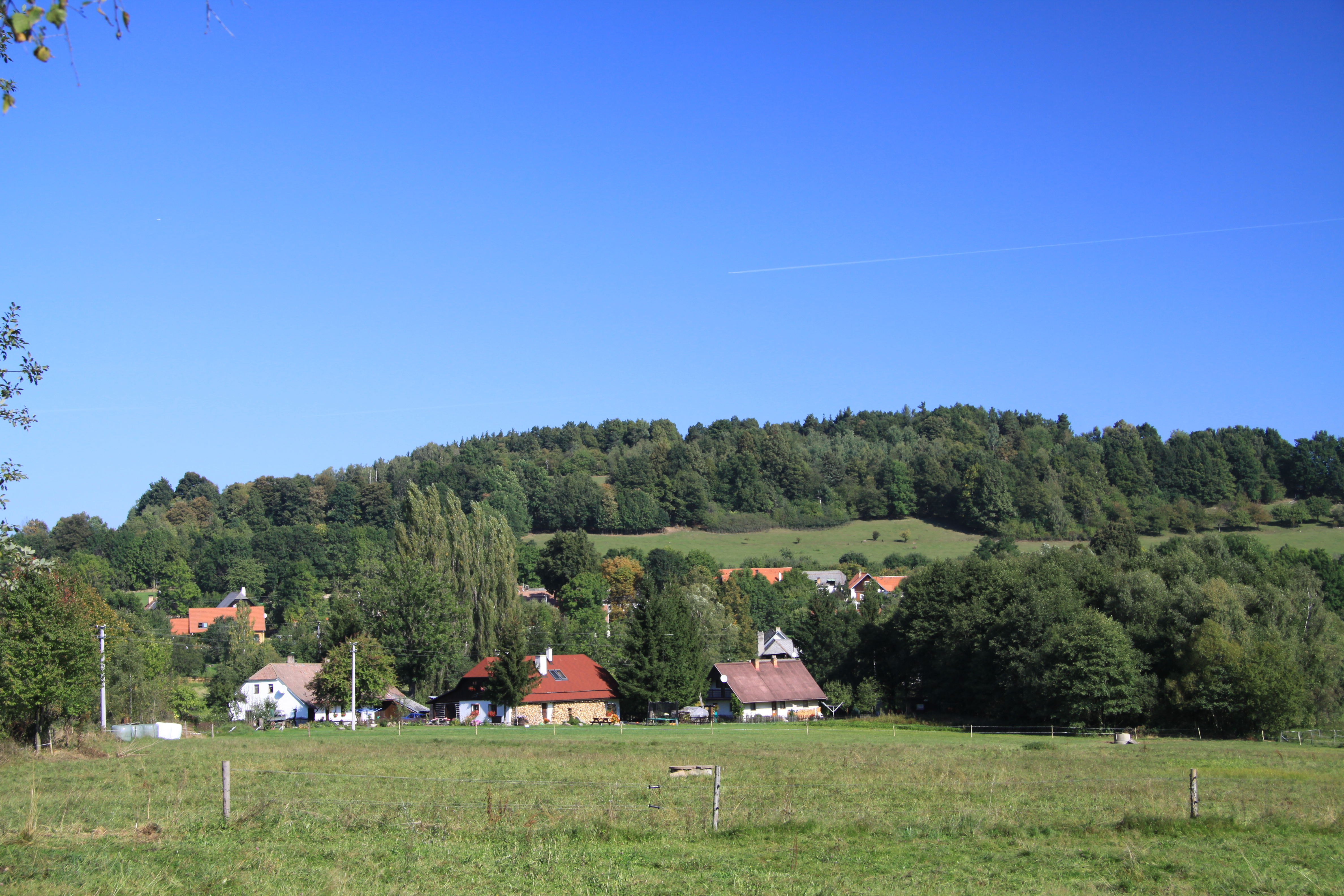 Libotyně village in Prachatice District, Czech Republic - Google Maps - Google Earth